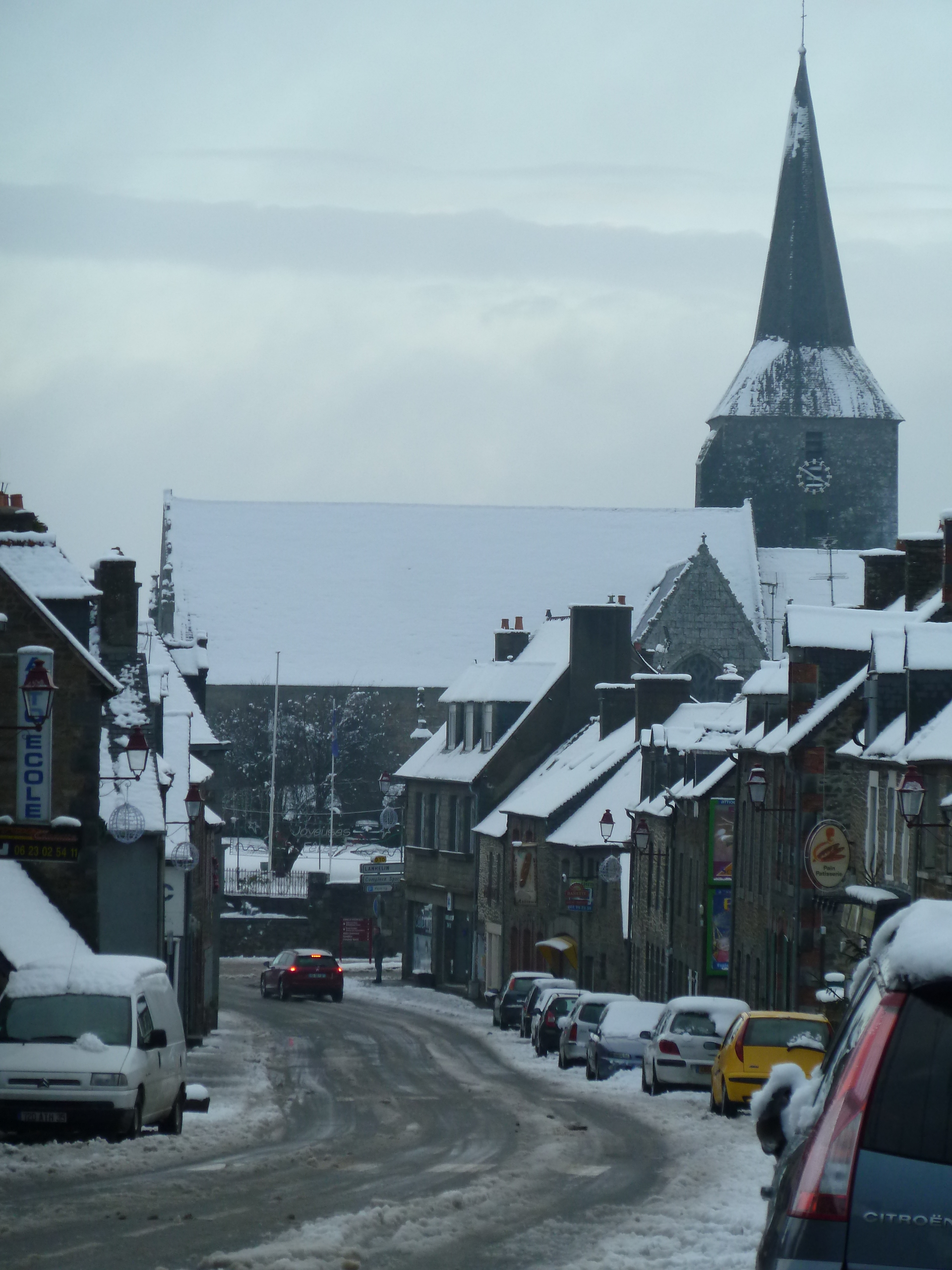 Libération street covered in snow in Saint-Pierre-de-Plesguen, Ille-et-Vilaine, France.